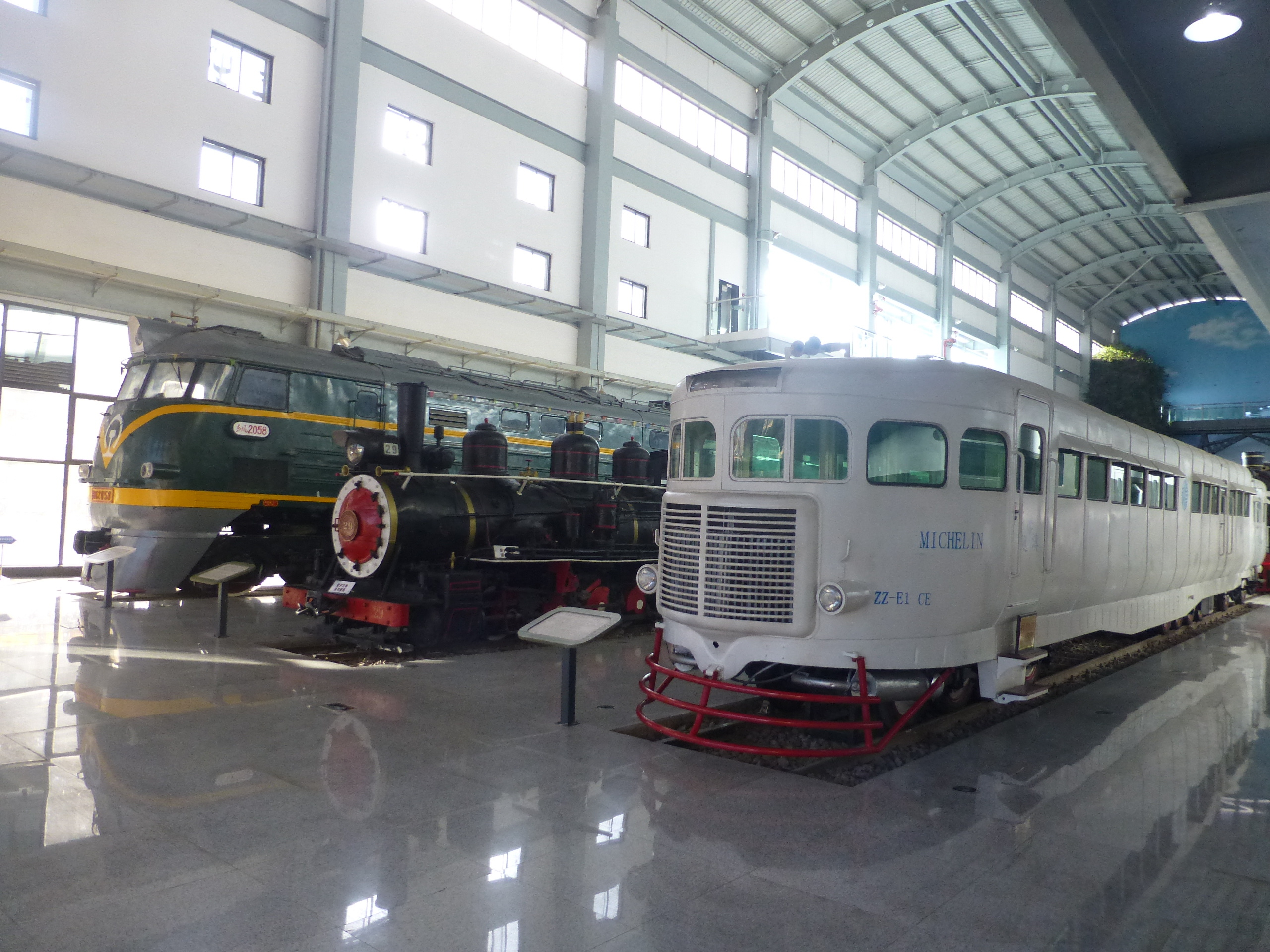 Rolling stock on display in the Yunnan Railway Museum (Kunming North Railway Station)